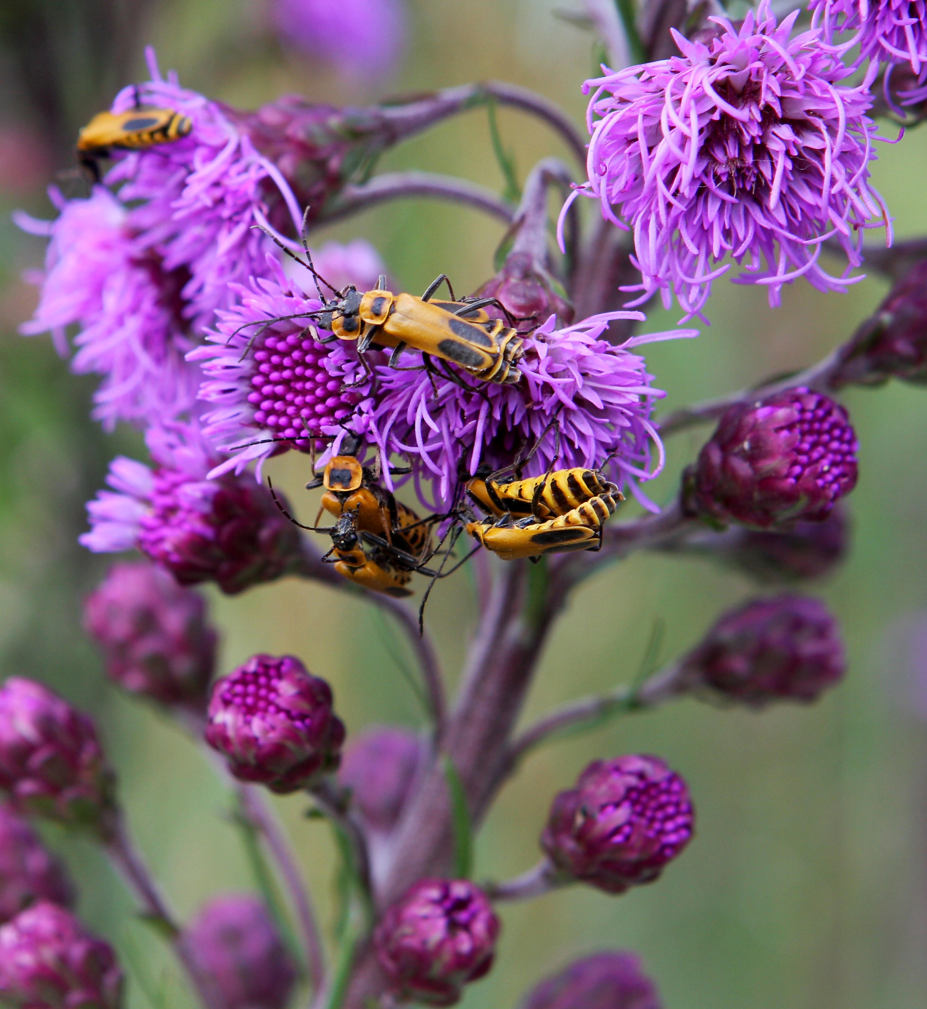 Liatris aspera